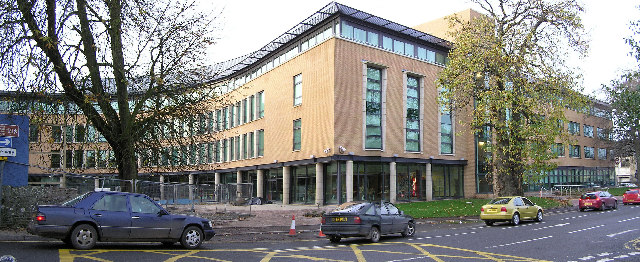 Omagh College